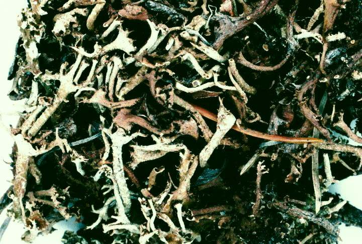 Cladonia crispata (Ach.) Flot., 1839 (photograph of a herbarium specimen) Growing on soil in open Jack Pine woods near Crumley Creek off US-68, Cheboygan County, Michigan, USA; collected and identified by Richard E. Riefner (No. 81-454, 14 Jul 1981); specimen is now in the Lichen Herbarium of the New York Botanical Garden.